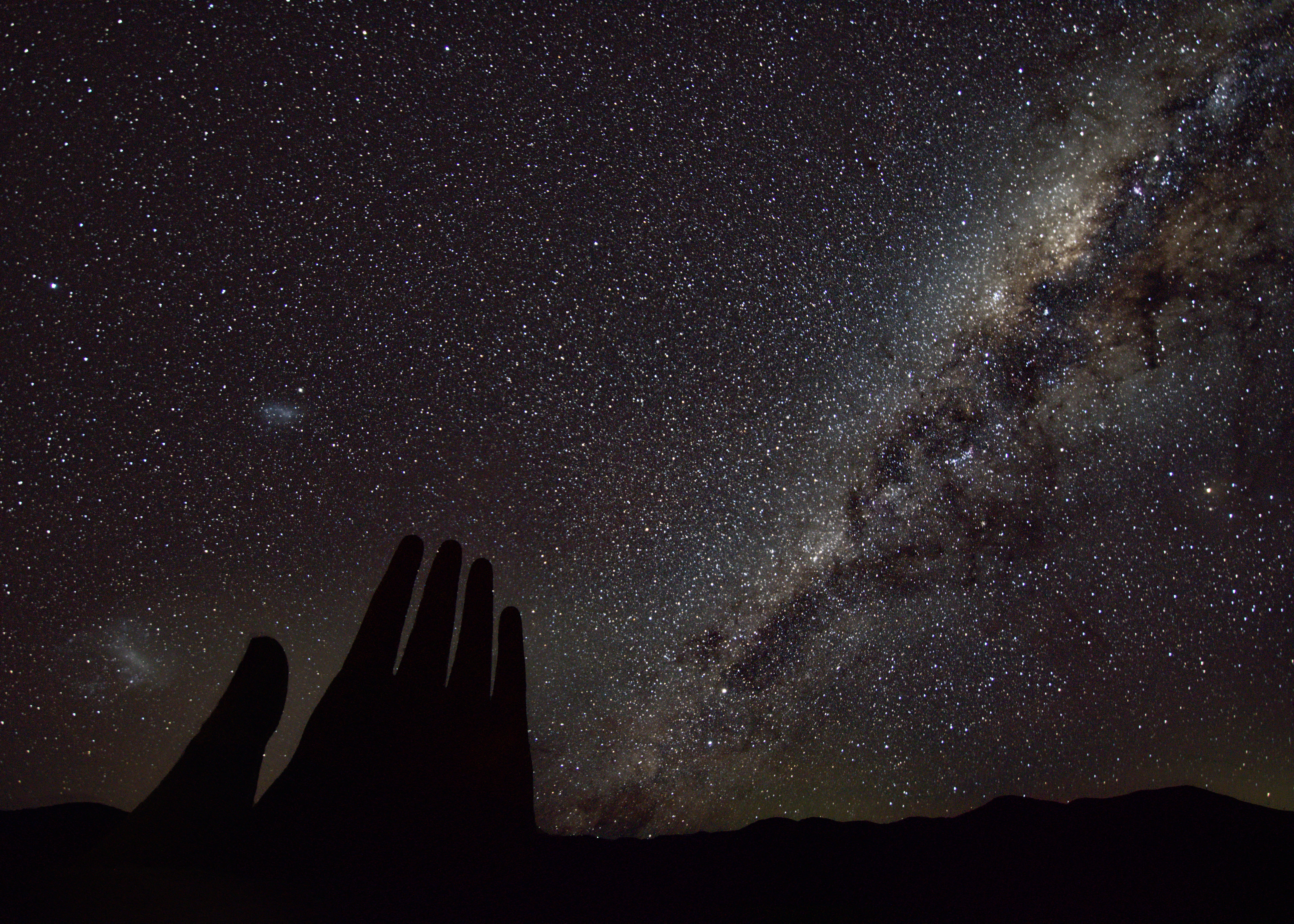 This place is a really good place to do astrophotography. La Mano del Desierto is a "starlight tourist destination" and every year hundred of astrophotographer do their work here